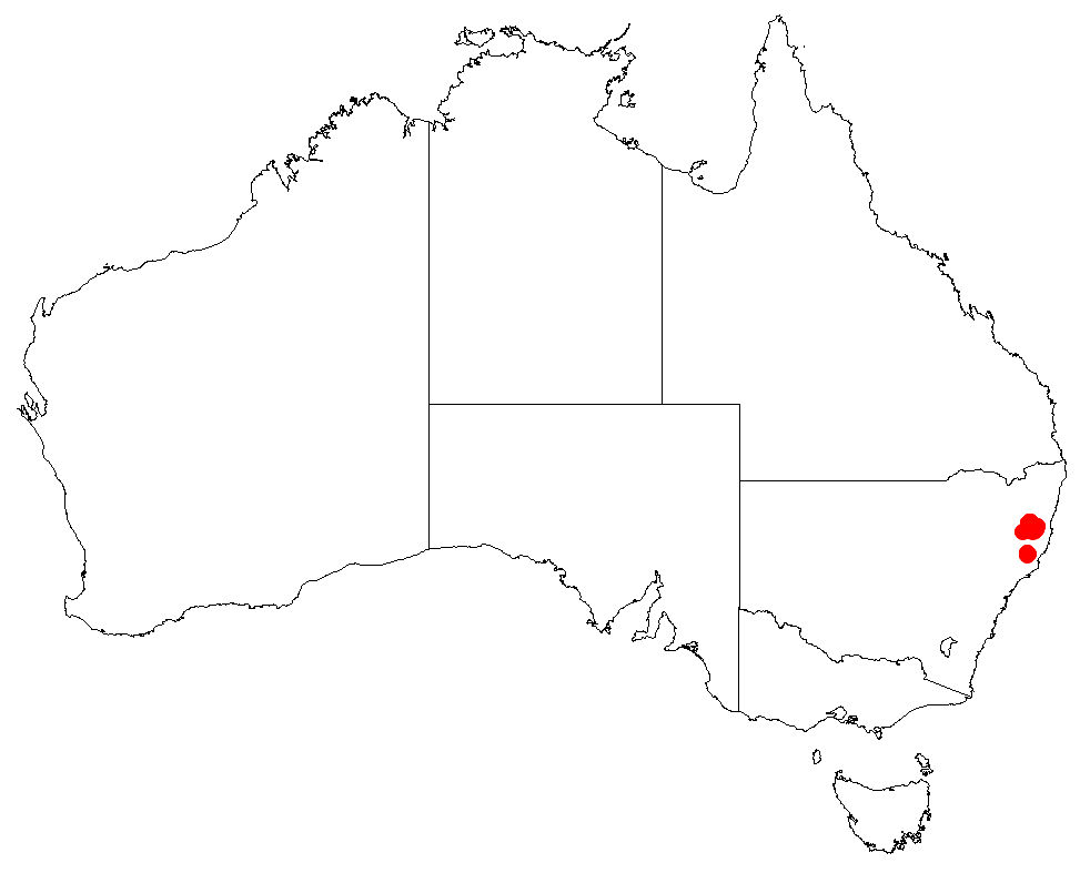 Macrozamia montana occurrence data downloaded from Australasian Virtual Herbarium using